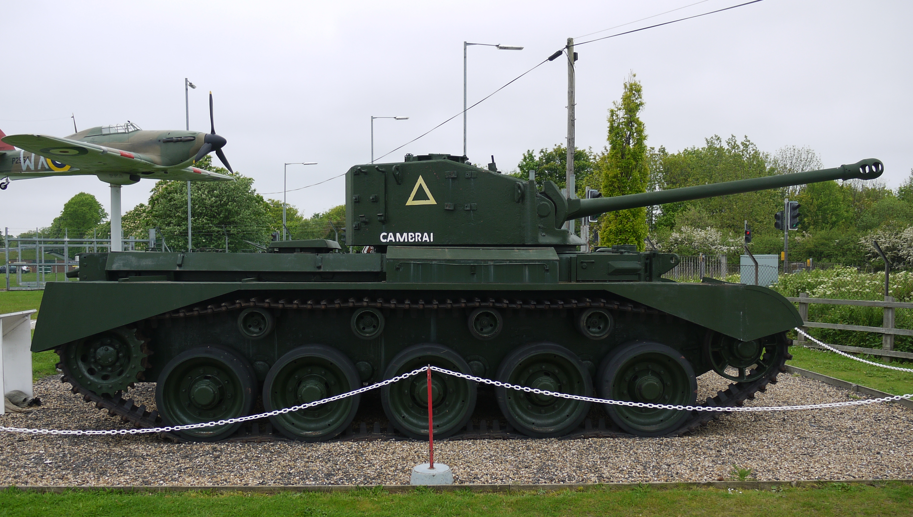 Photo of a comet tank from the side. photo taken at duxford imperial war museum.